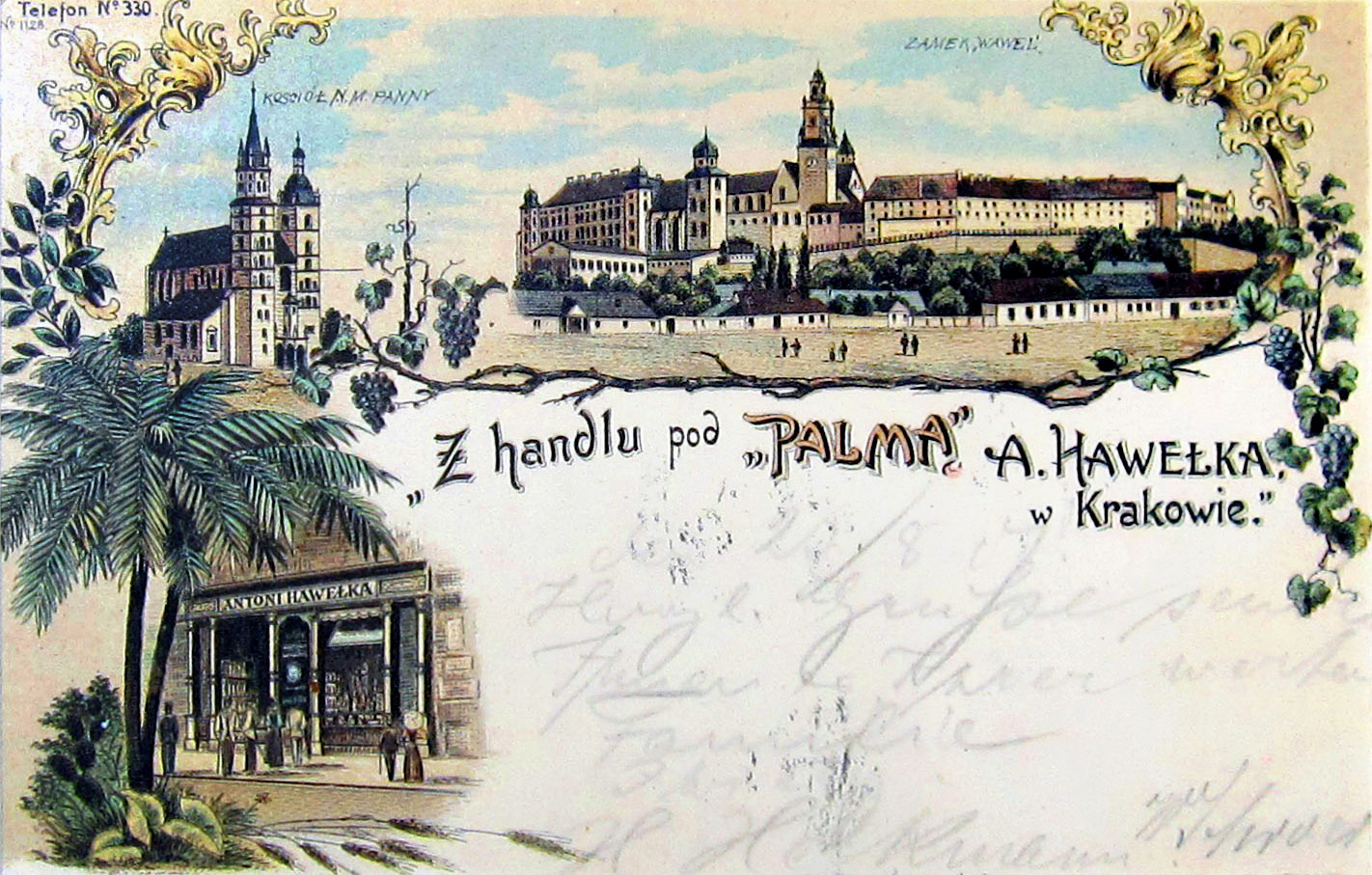 Vintage postcard of Antoni Hawełka in Krakow.